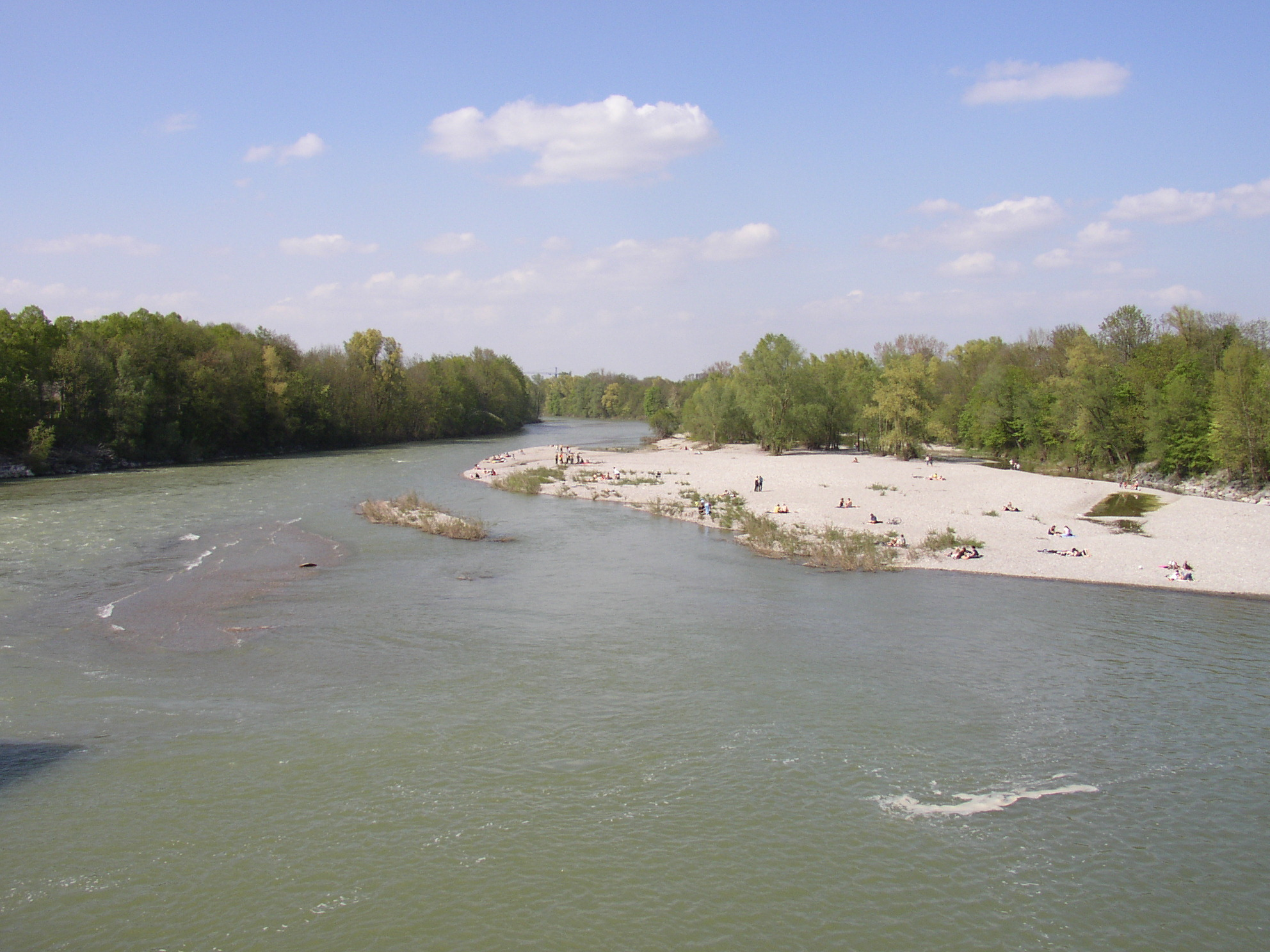 Lech in Augsburg, Germany. View from the "Hochablasswehr" (weir).